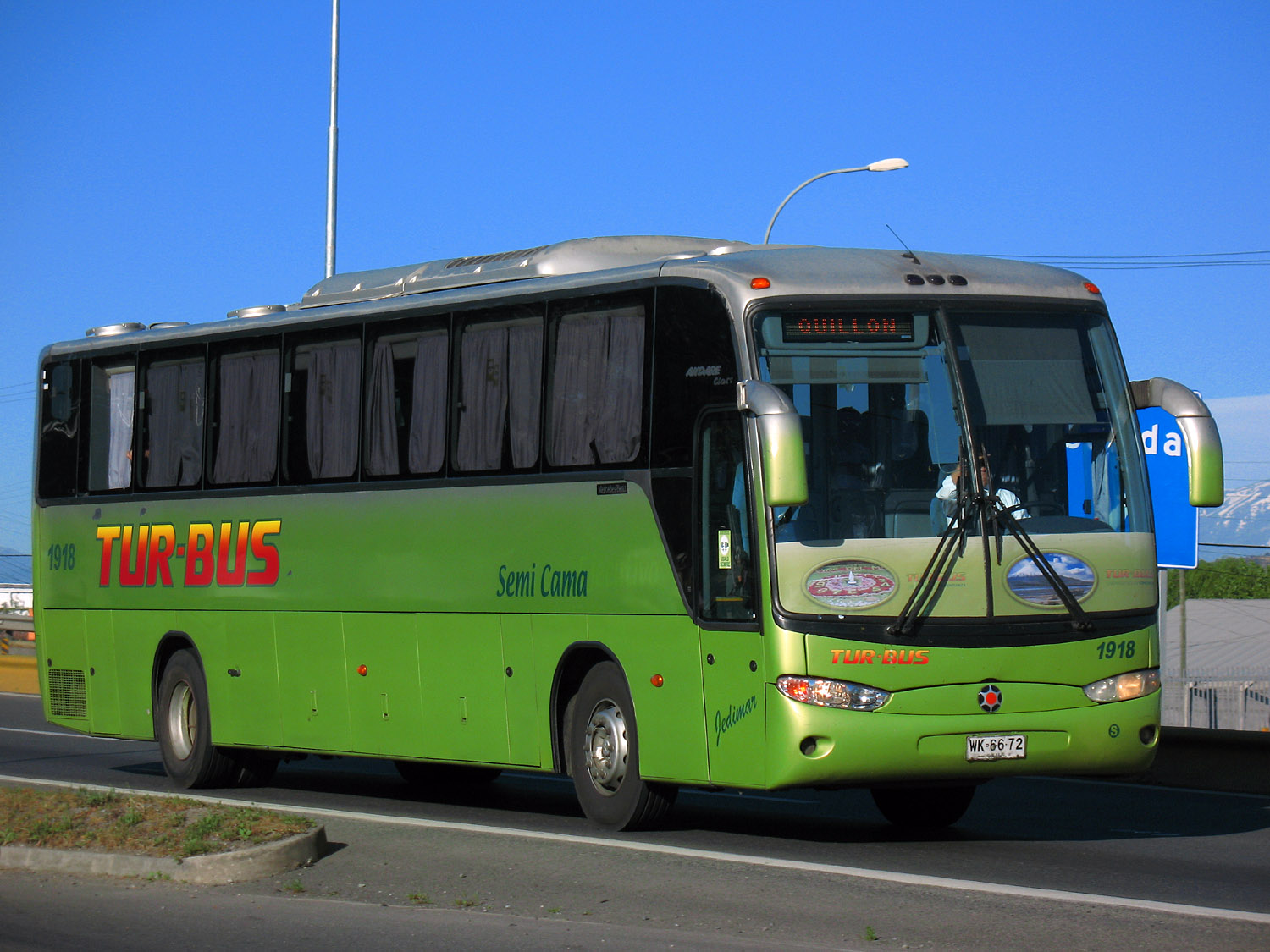 Marcopolo Andare Class bus (#1918, reg. WK-66-72) with Mercedes-Benz O-500 chassis in Chile. Tur Bus operator.